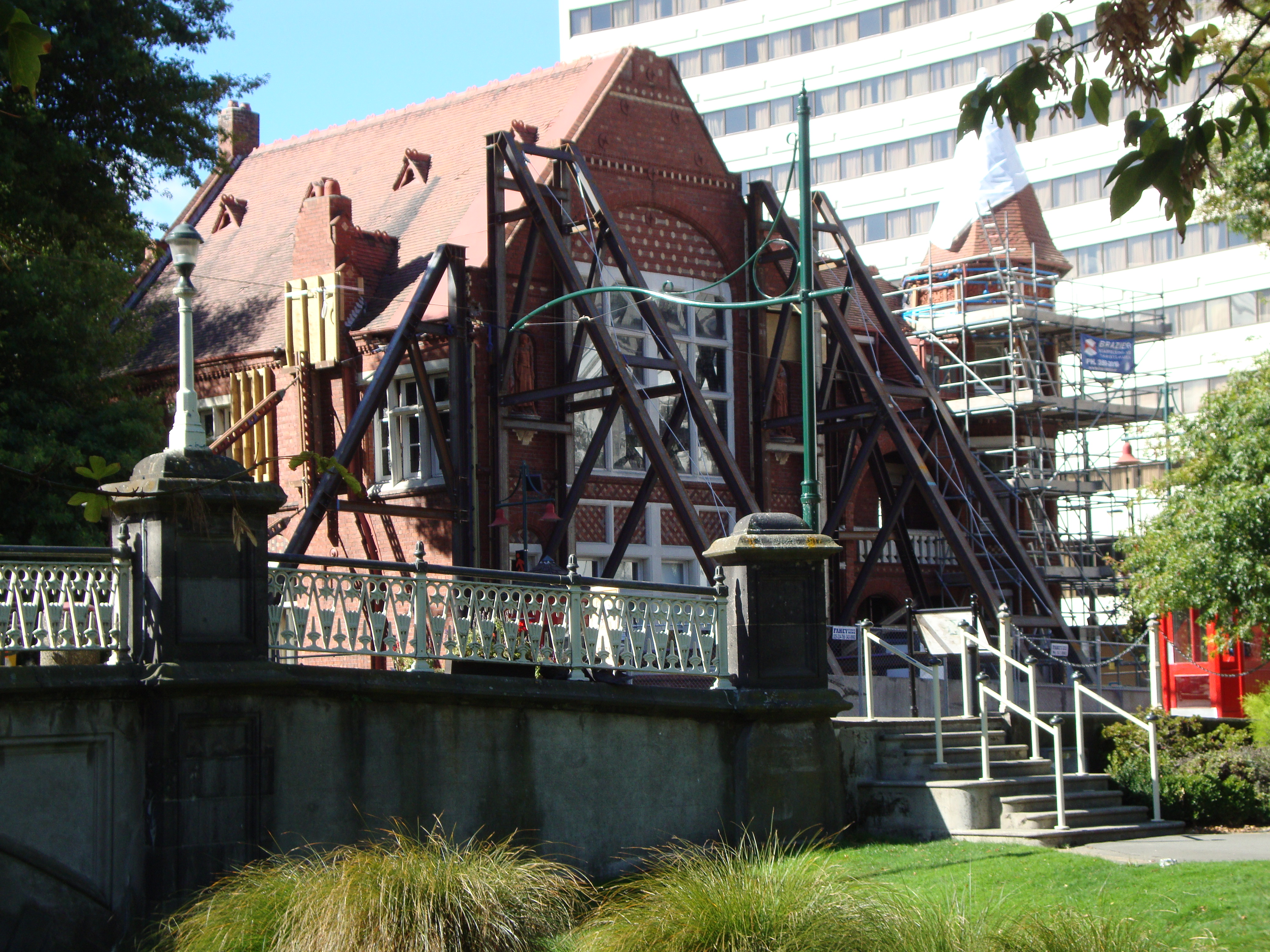 Our City in mid March 2011, displaying earthquake damage.